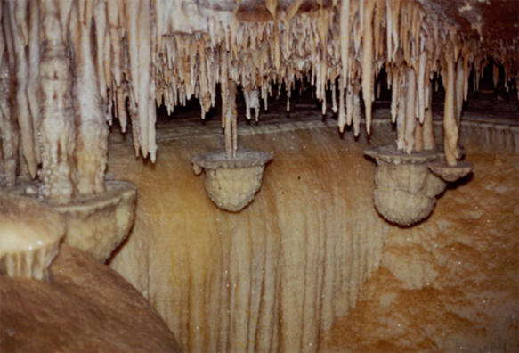 Ghoori Ghaleh Cave